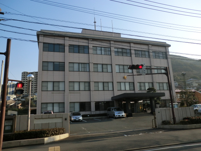 Kitakyushu Water Police Station in Moji ward,Kitakyushu,Fukuoka.